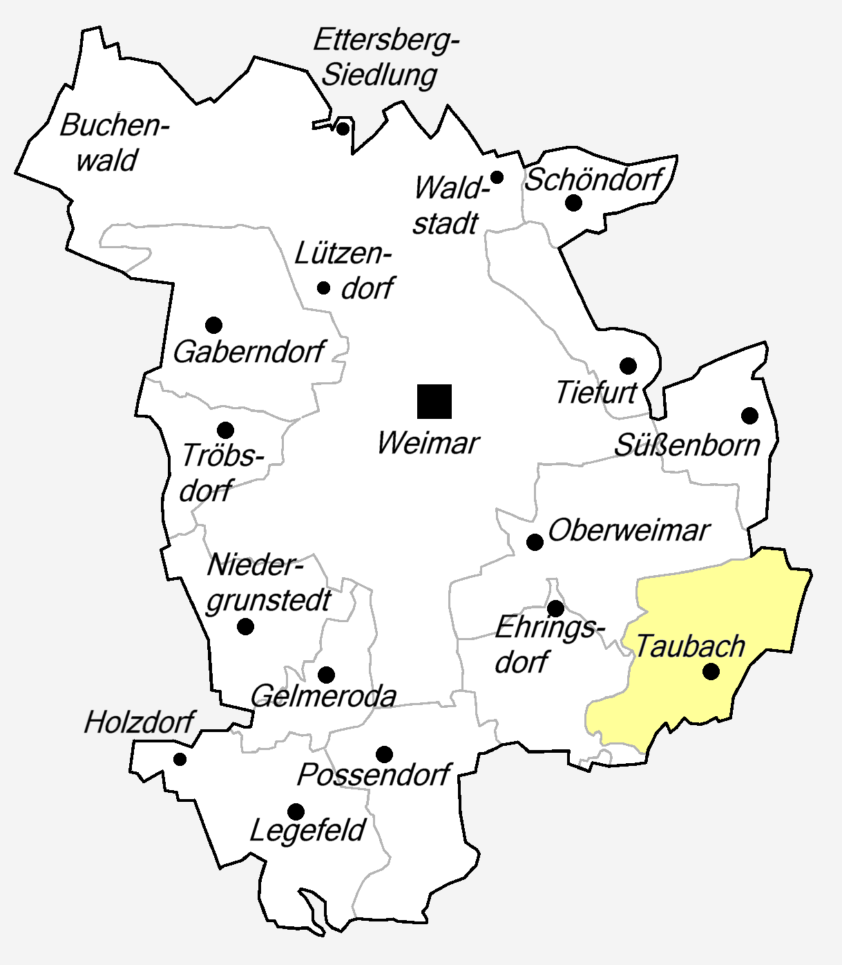 District-Maps of Taubach in Weimar.